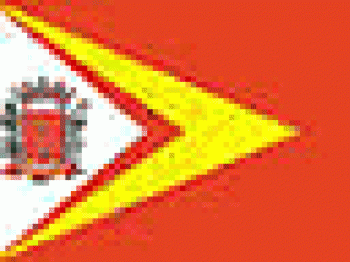 Flag of General Salgado - SP - Brasil.